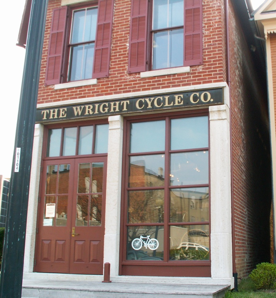 Wright Brothers cycle shop in downtown Dayton, Ohio, USA. It is the only one left in Dayton. Its surroudings were rebuilt as a historical site. The brothers moved multiple times.